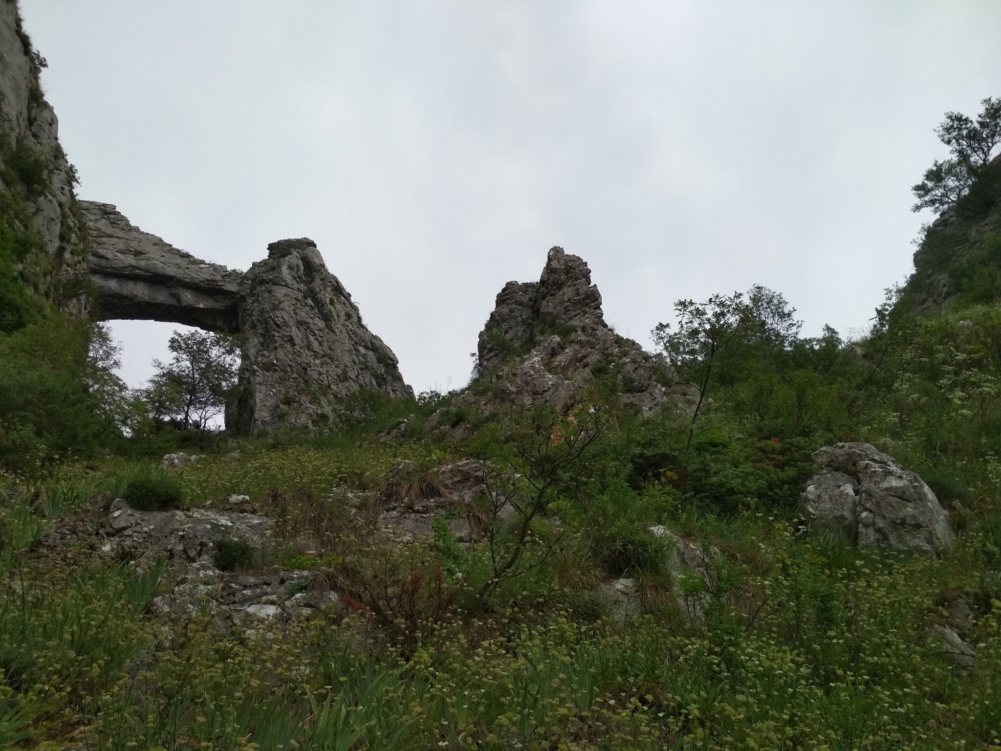 Gate of Alkima